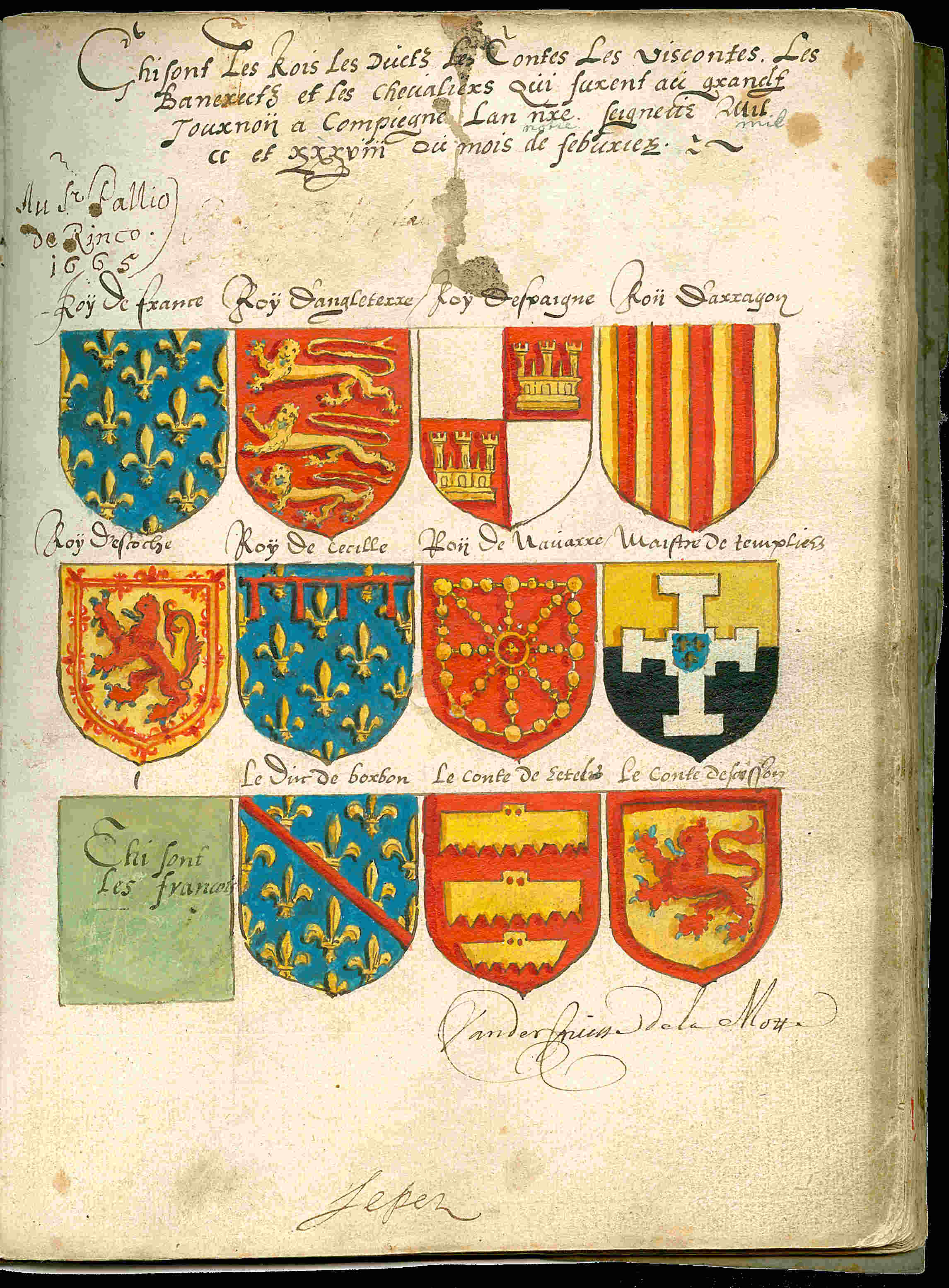 Page 01 from a copy of the Beyeren armorial / Wapenboek Beyeren from ca. 1600. The original Beyeren armorial from 1405 can be viewed at the website of the KB